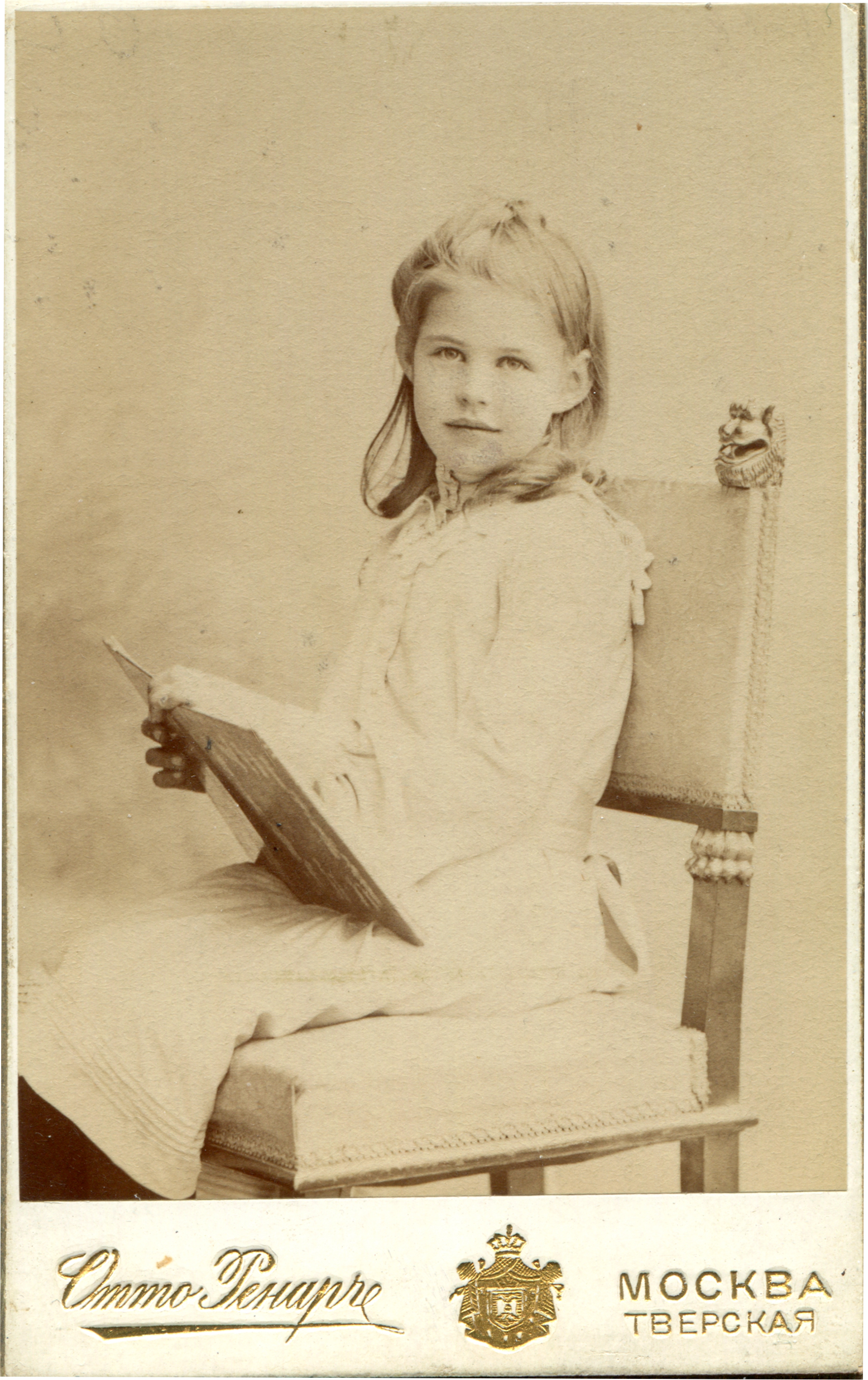 Natalia Shakhovskaya (1890-1942), daughter of prince Dmitry Shakhovskoy, a leader of Constitutional Democratic Party.